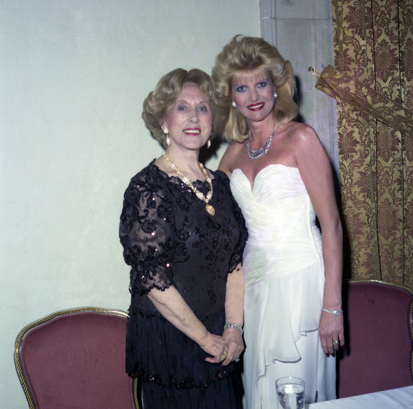 Estee Lauder with Mrs. Ivana Trump at a Red Cross ball in Palm Beach.